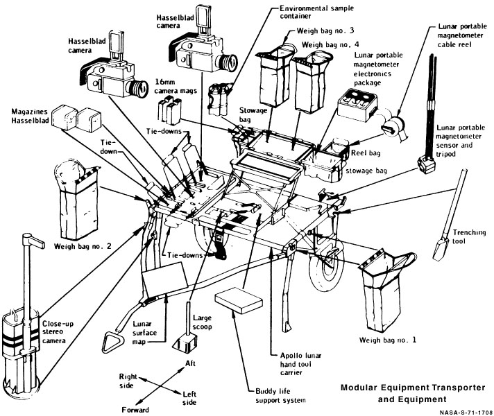 Modularized Equipment Transporter (MET)